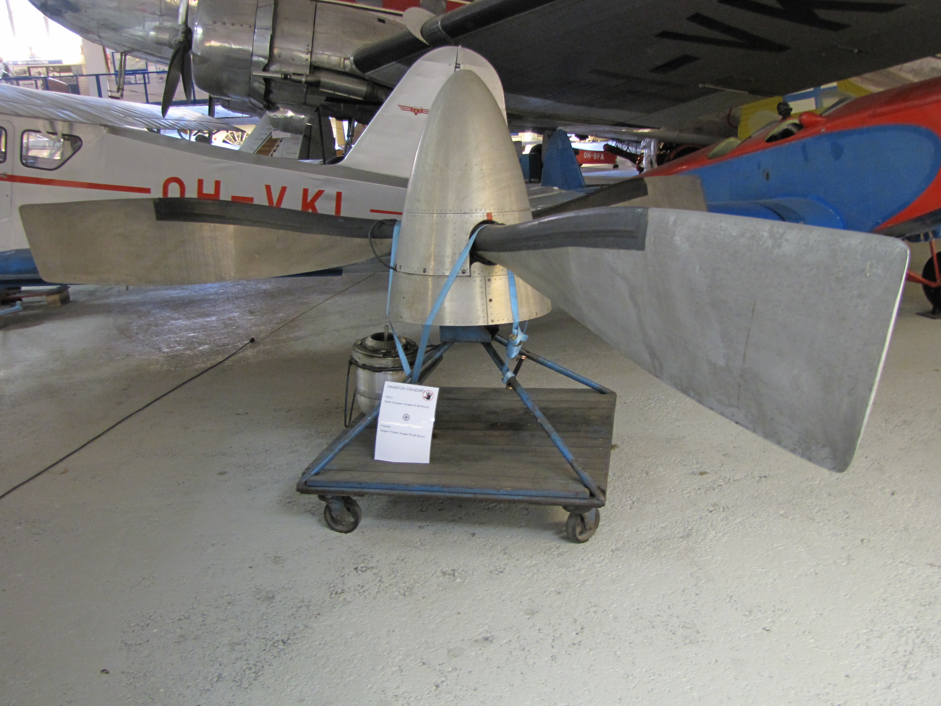 Hamilton Standard propeller from Douglas DC-6B in Finnish Aviation Museum.